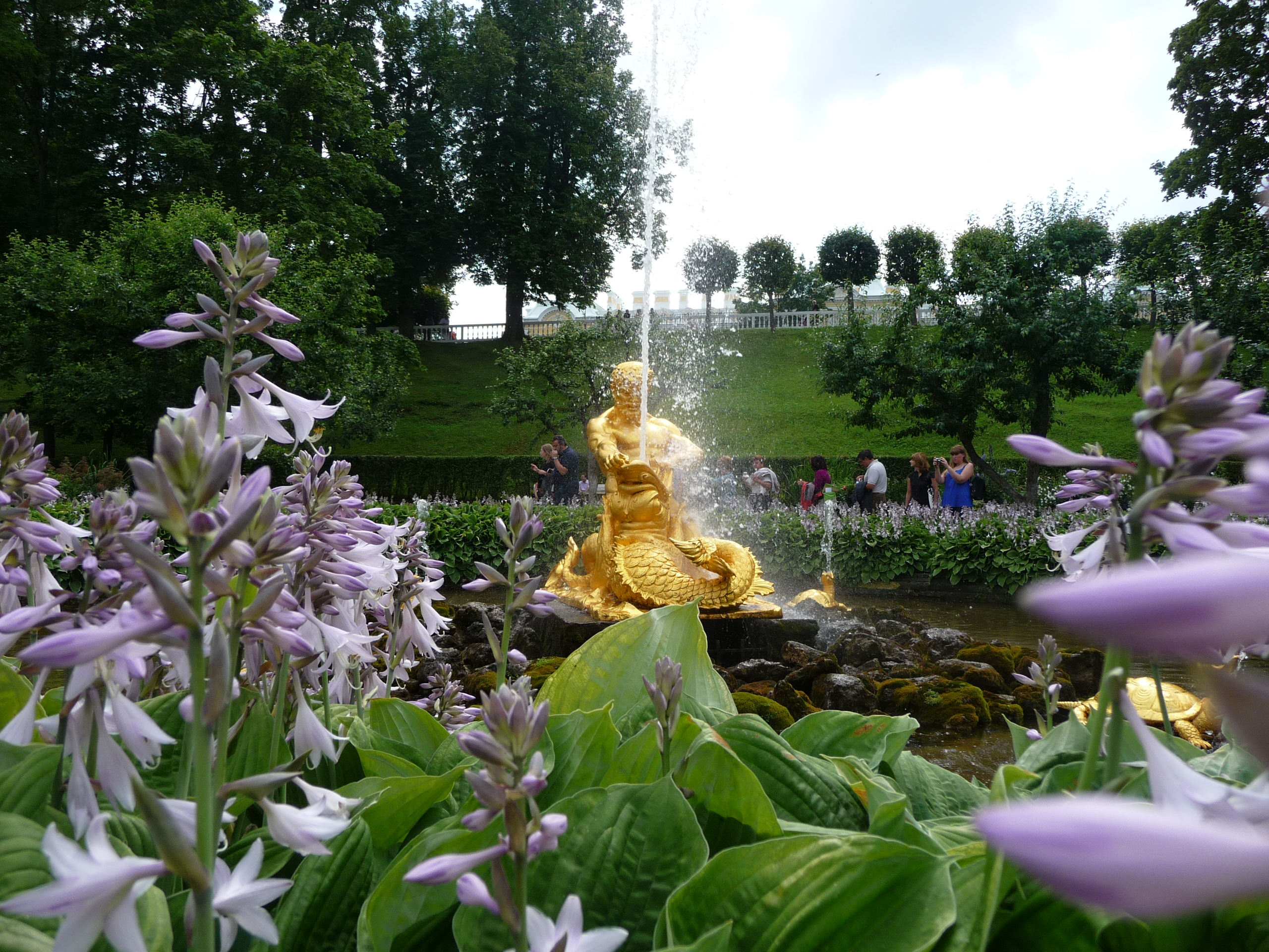 Palace-fountains-p1030939.jpg